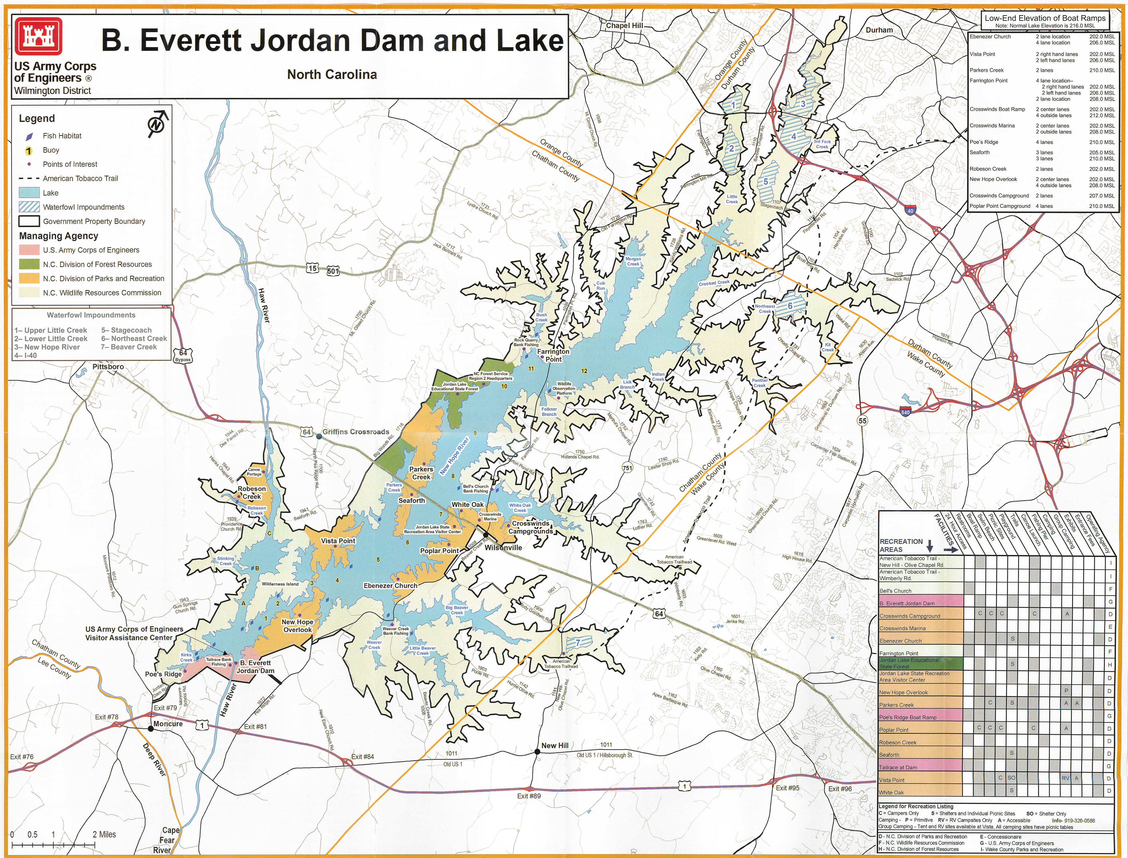 Map of Jordan Lake circa 2010.